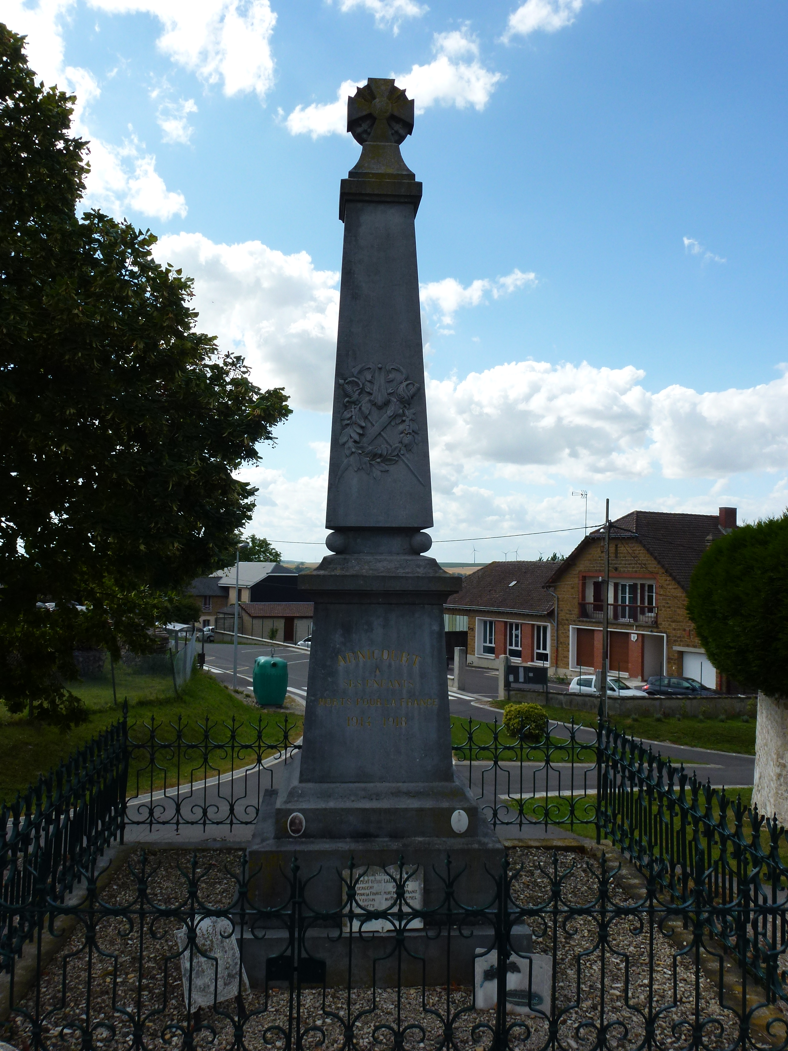 Arnicourt (Ardennes) monument aux morts